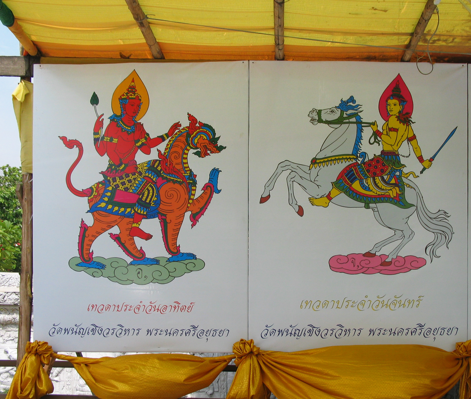 Personification of weekdays in Thailand: Sunday and Monday